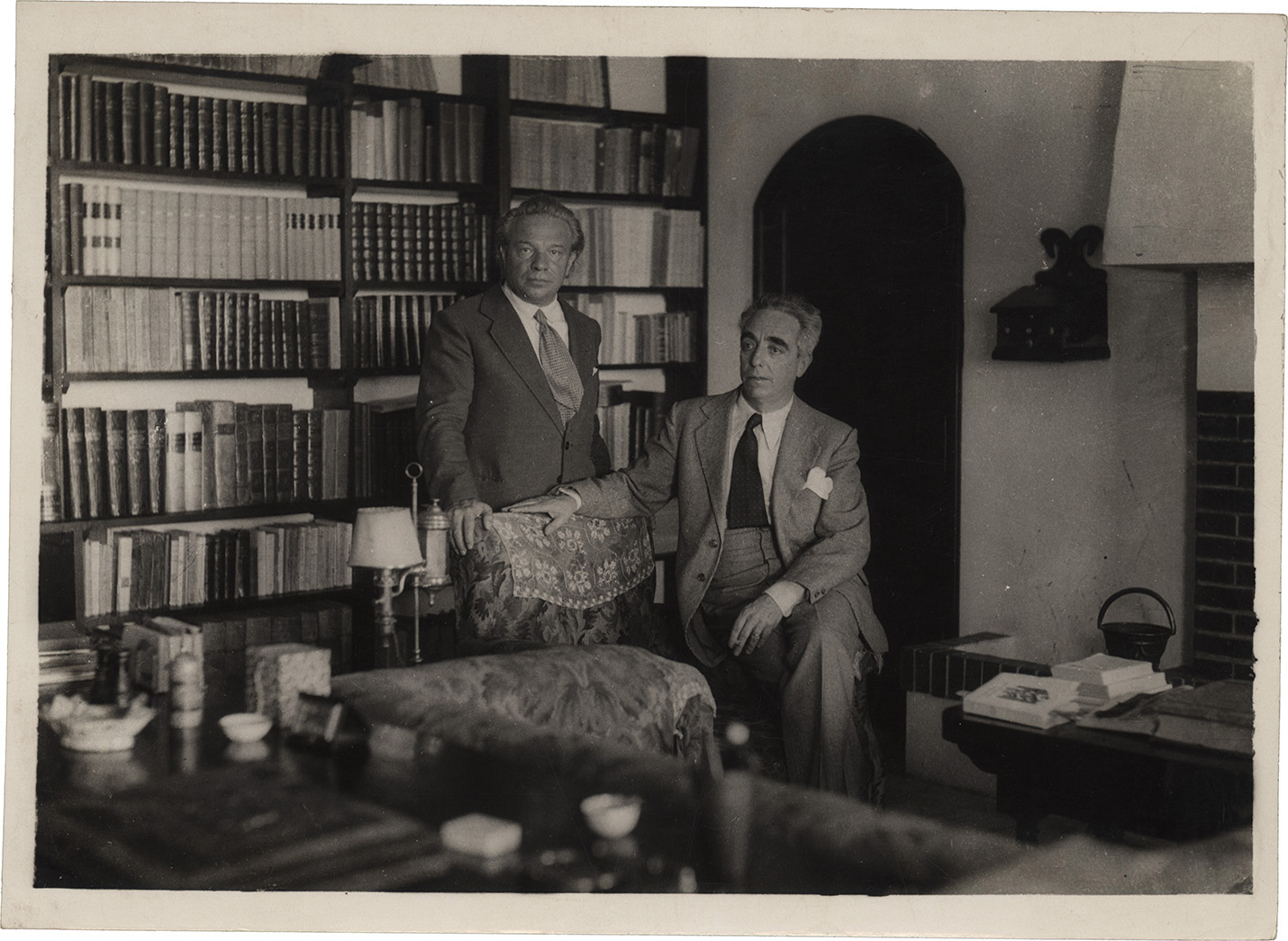 Portrait of Claudio Guastalla, Ottorino Respighi. Photo by unknown, Roma, 1932.